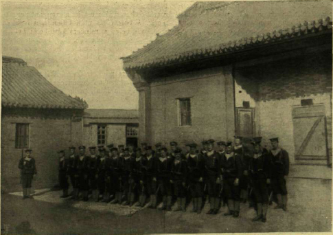 Published in the weekly periodical newspaper called Vasarnapi Ujság by the printing press inc. Franklin Irodalmi és Nyomdai Rt. in 1904. Photos taken and owned by Head engineer of Ganz Enterprises Geza Szuk while being comissioned in Tianjan between July 1903 and February 1904.